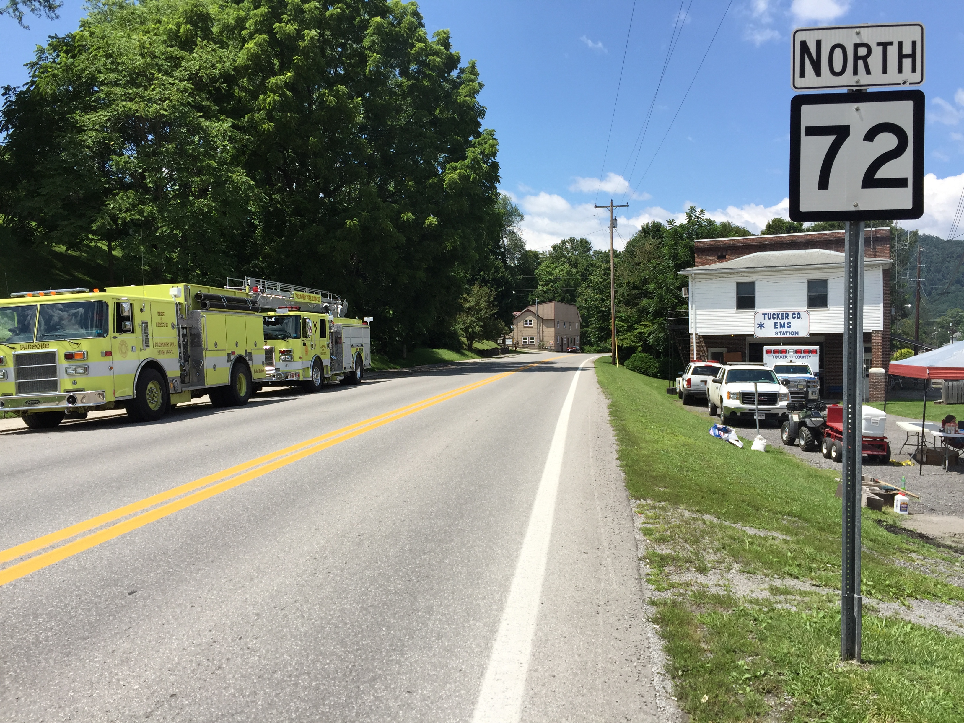 View north along West Virginia State Route 72 (Chestnut Street) at Main Street in Parsons, Tucker County, West Virginia